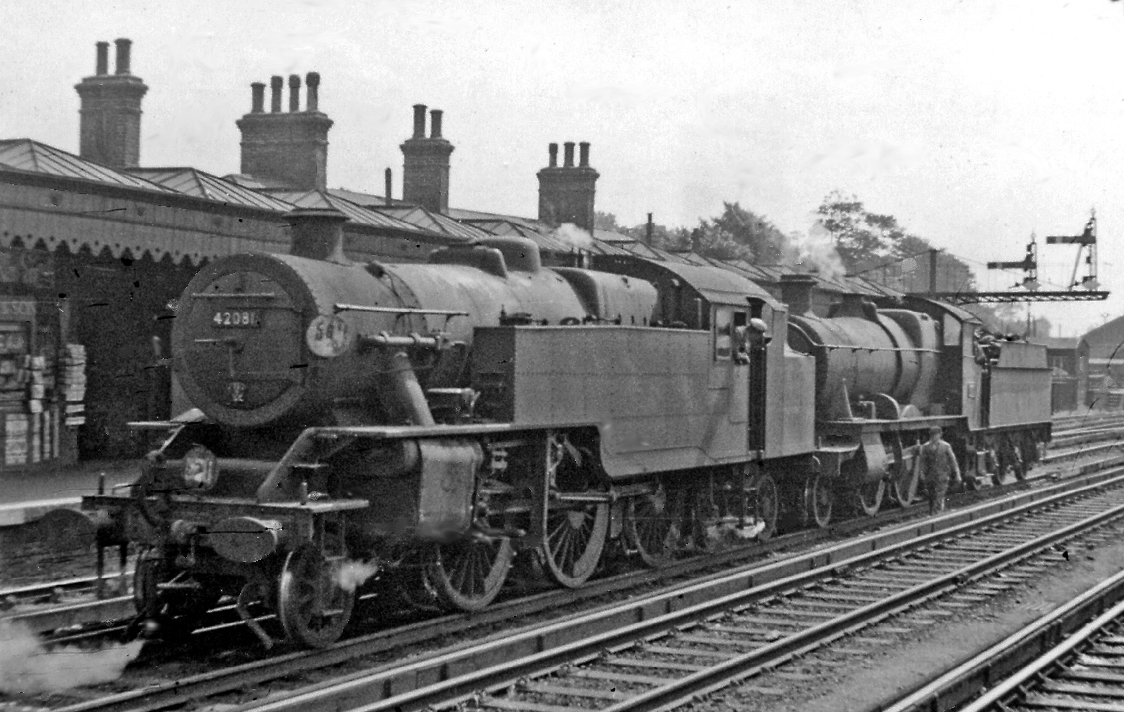 Two 'foreign' locomotives at Redhill SR. View northward from the Down platform: ex-SE&CR/LB&SCR junction on the London - Brighton main line. Running coupled on the Up Through line are LMS-type Fairburn 4MT class 2-6-4T No. 42081 (built 1/51 withdrawn 5/67 and one of many working branch services on the SR Central Section) with ex-GW Churchward 43XX 2-6-0 No. 6307 (built 1/21 withdrawn 7/60); the GW 2-6-0 will have worked a train from Reading - a common occurrence